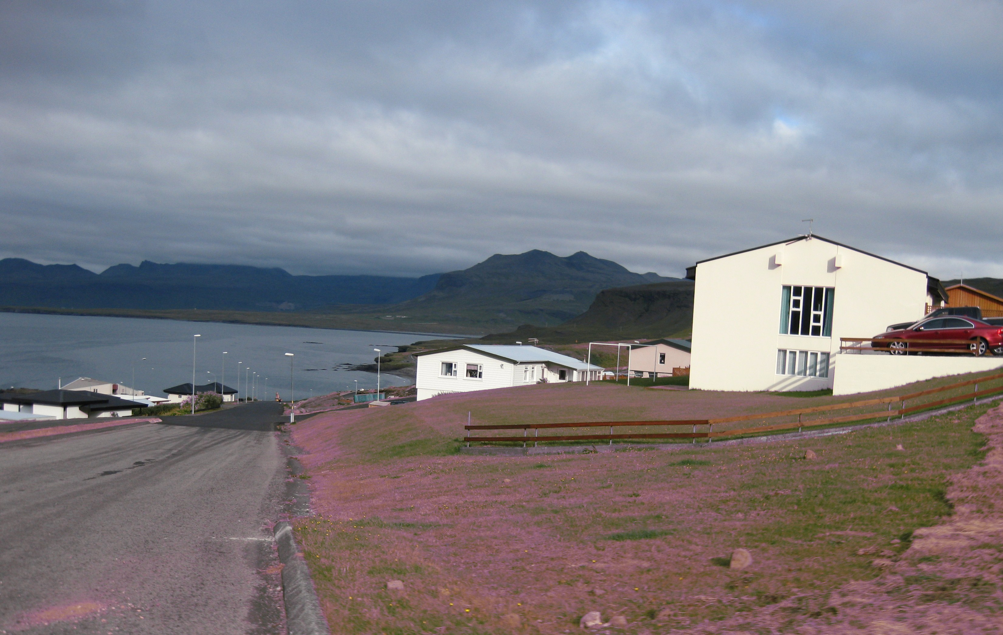 Street in the fishing town Ólafsvík in Snæfellsnes , Iceland. Photo by Salvor Gissurardottir in August 2008